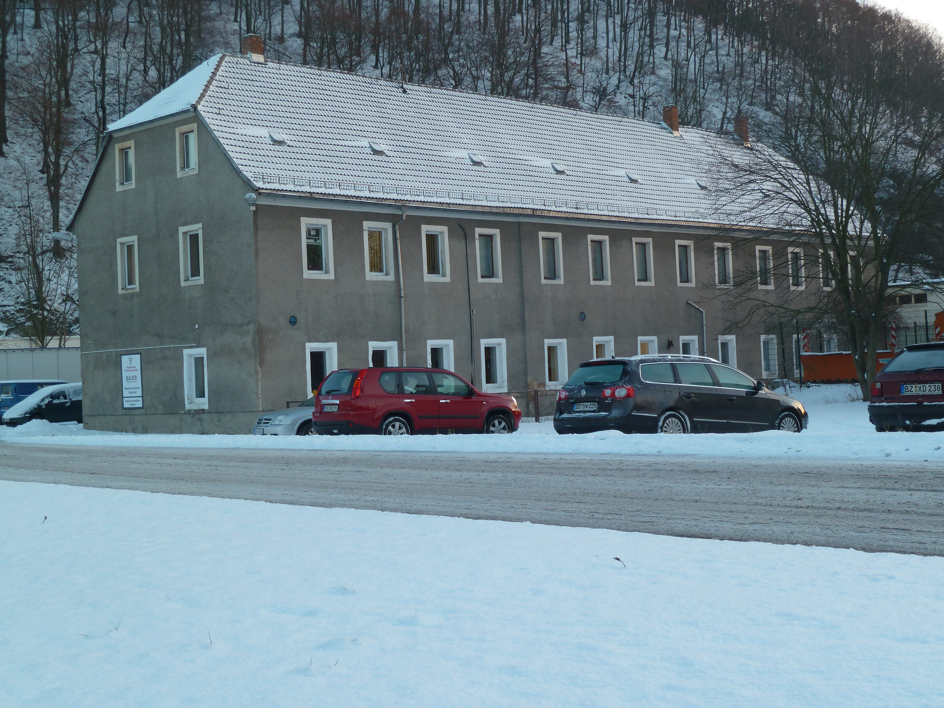 Farmstead since 1836, Turkish-red dye works of Roemer Bros. Hainsberg since 1863, now used by the paper mill Papierfabrik Hainsberg and smaller businesses.